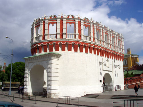 Moscow, the Kremlin. Kutafya Tower.